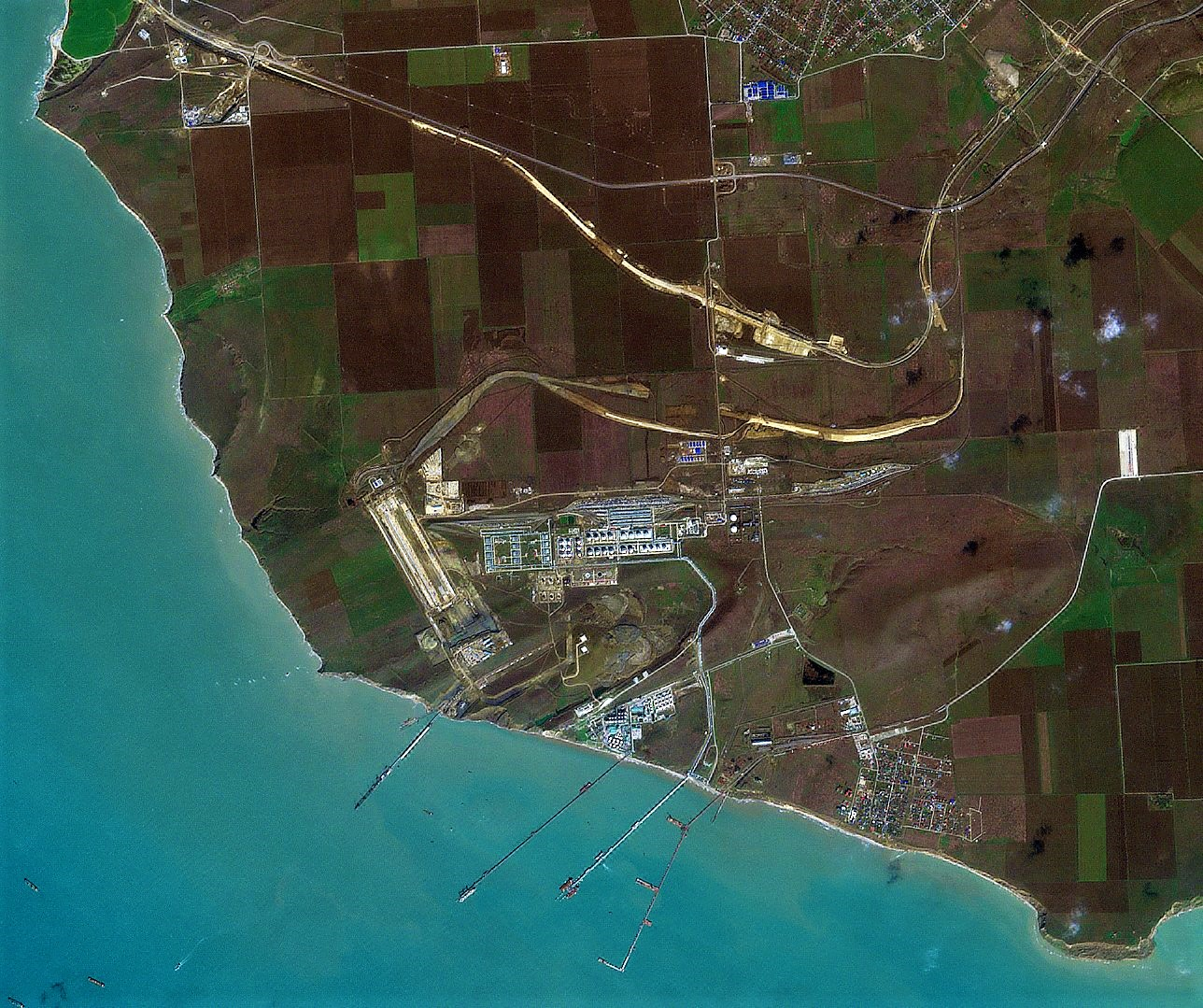 Railway station Portovaya and Taman Port (south from the Crimean Bridge), Sentinel-2 satellite image, resolution 10 m, near natural colors, 2018-MAR-5